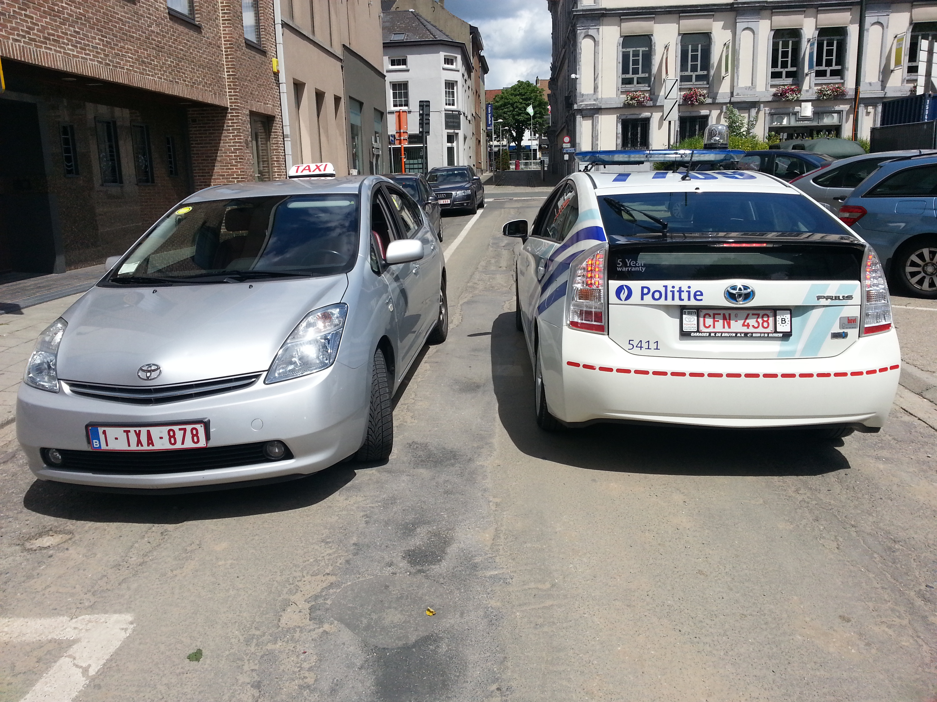 Police and Taxi Toyota Prius in Belgium. 2012